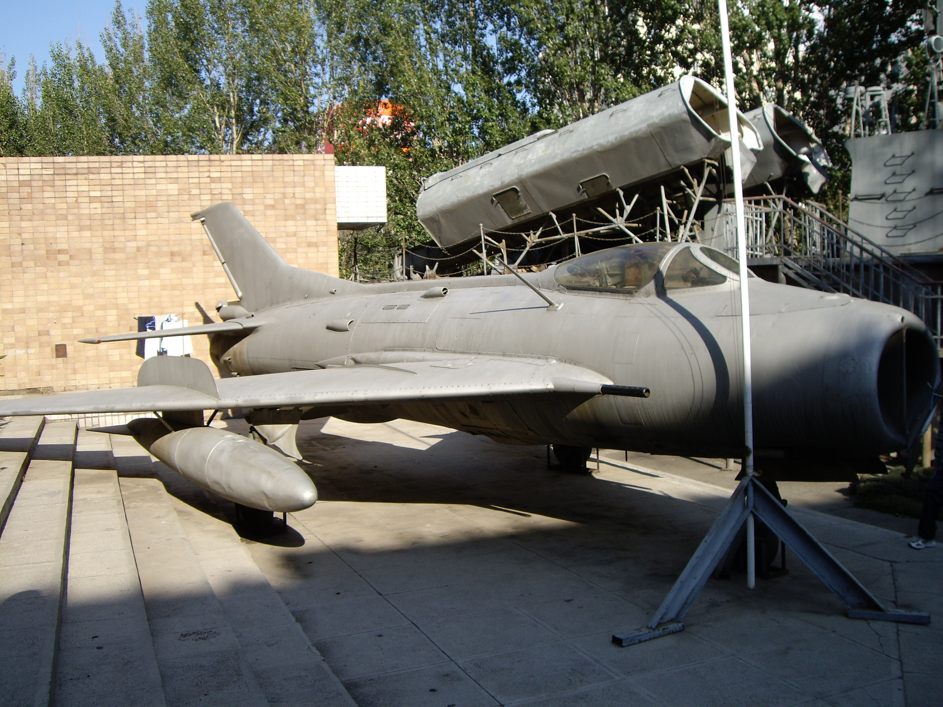 Shenyang J-6 in Harbin, China.